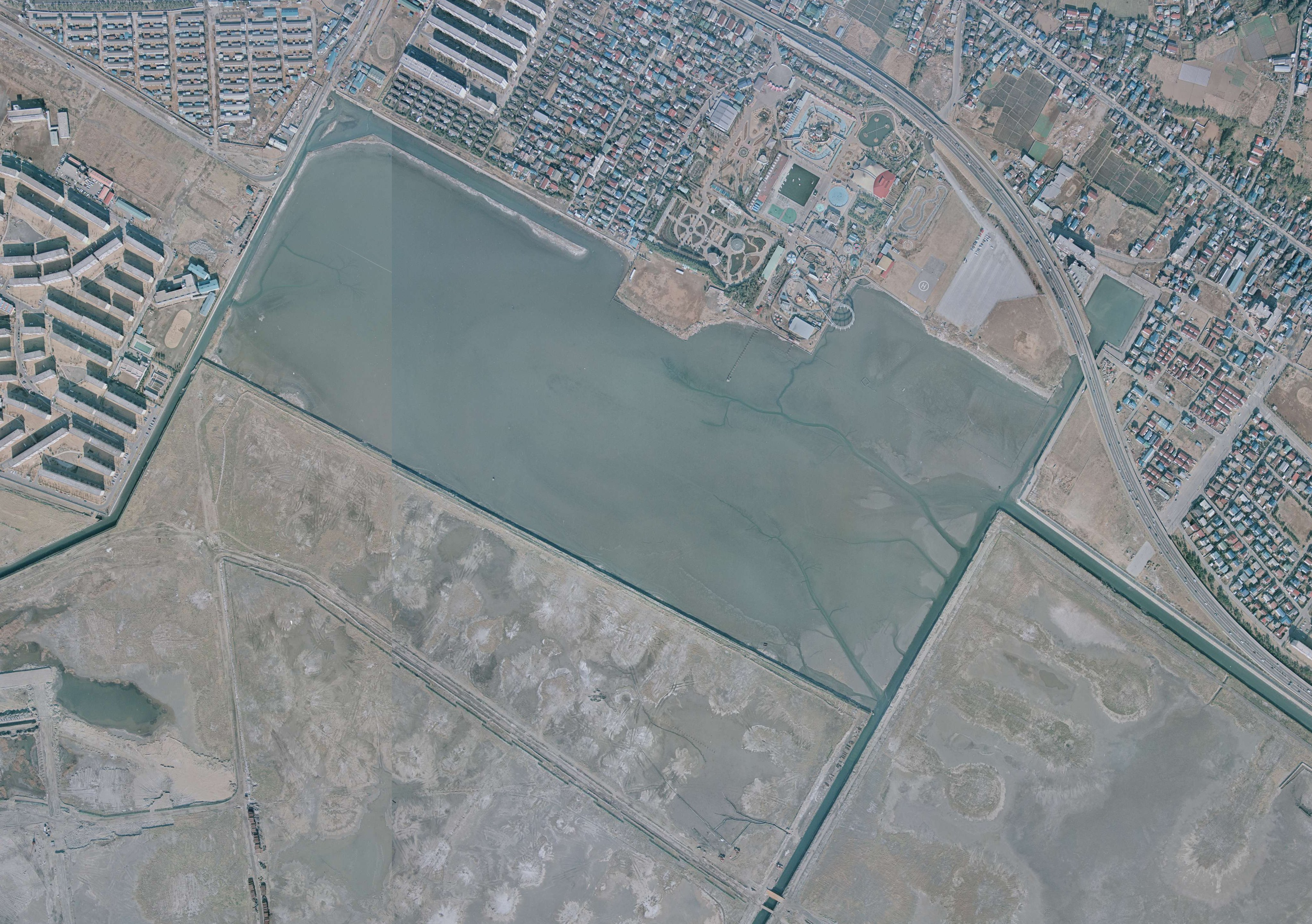 Around Yatsu-Higata taken in 1975